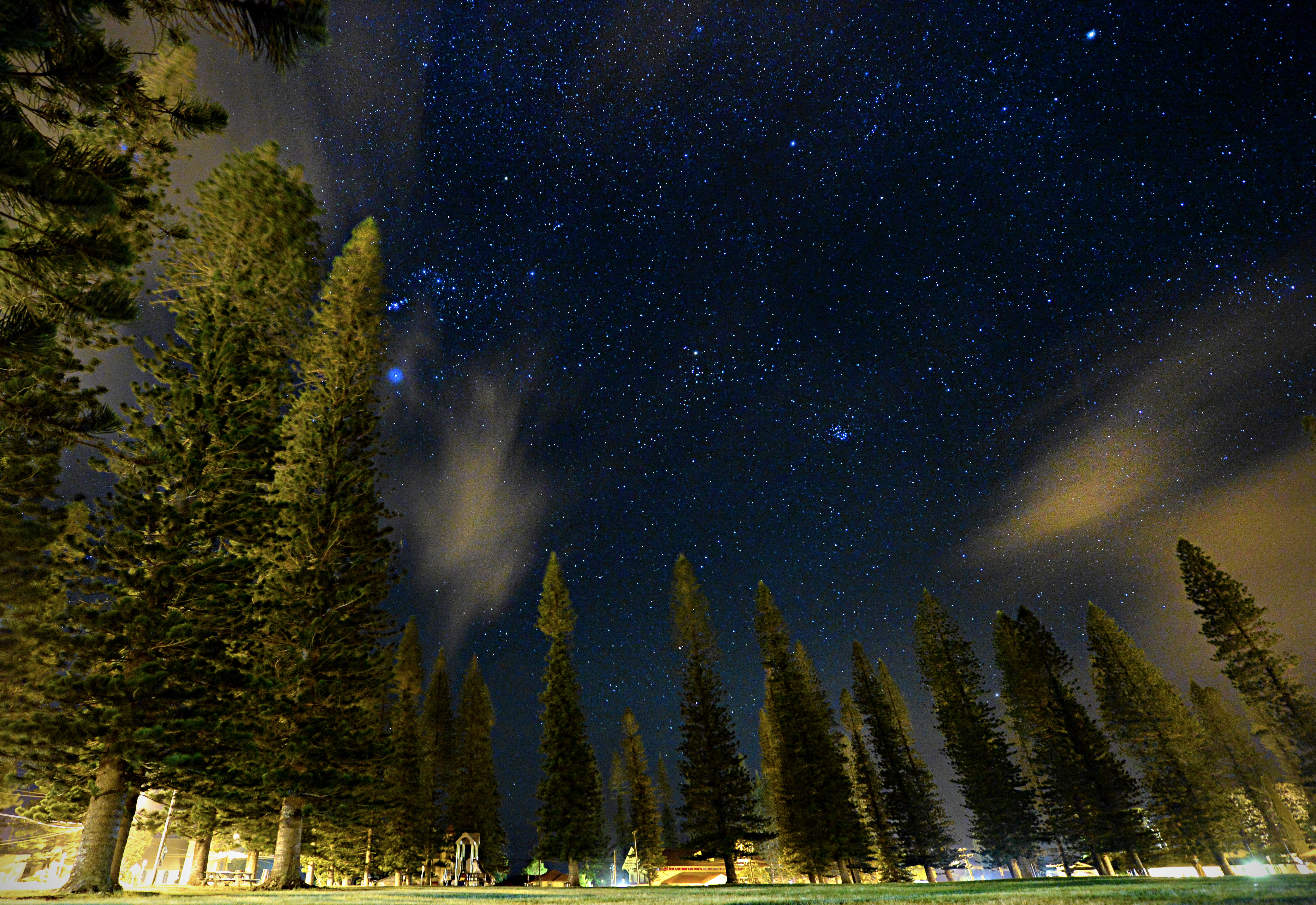 View of stars from inside of Dole Park on the island of Lana'i, in the state of Hawaii, USA, in November, 2015. Attribution must go to Steven Keys and to